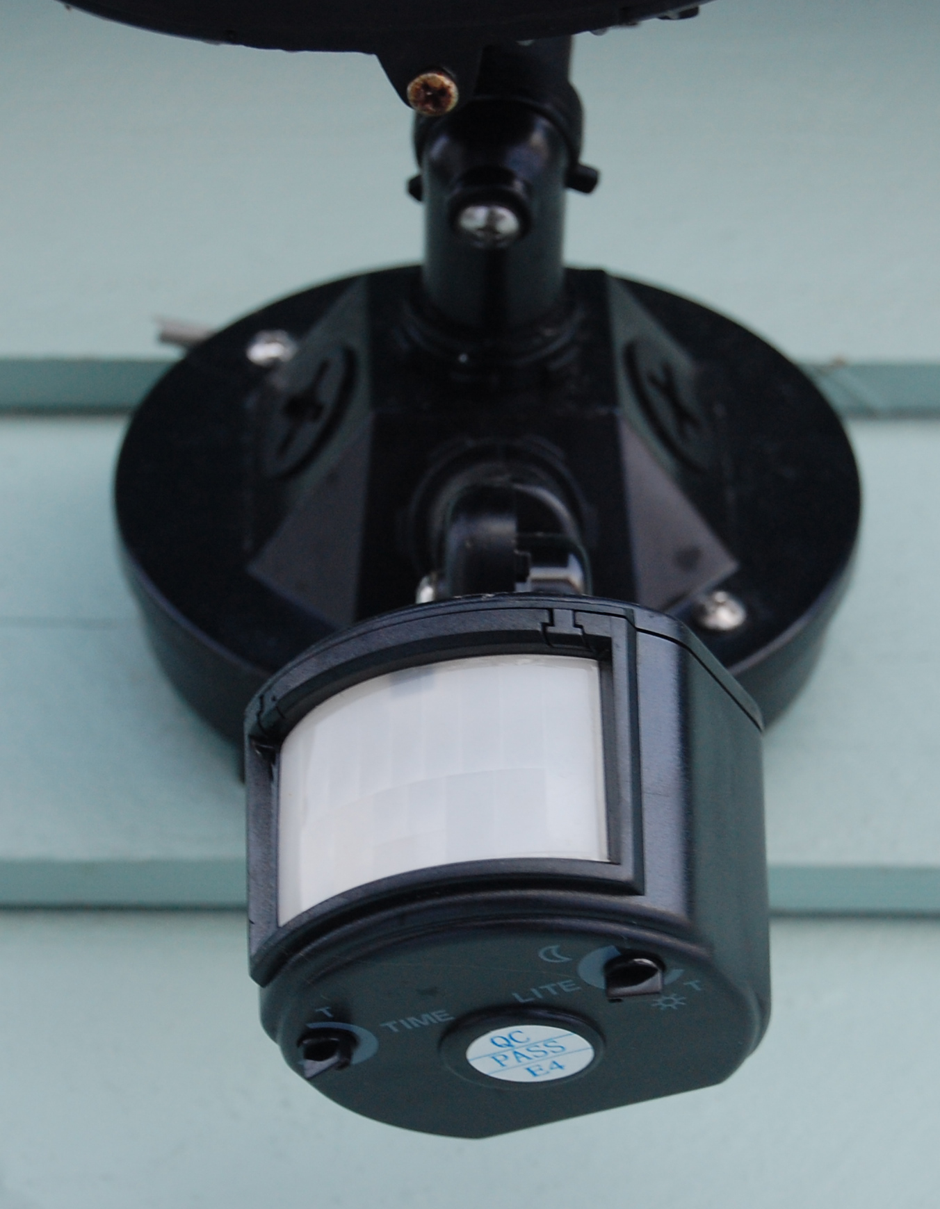 A motion detector attached to a garage.